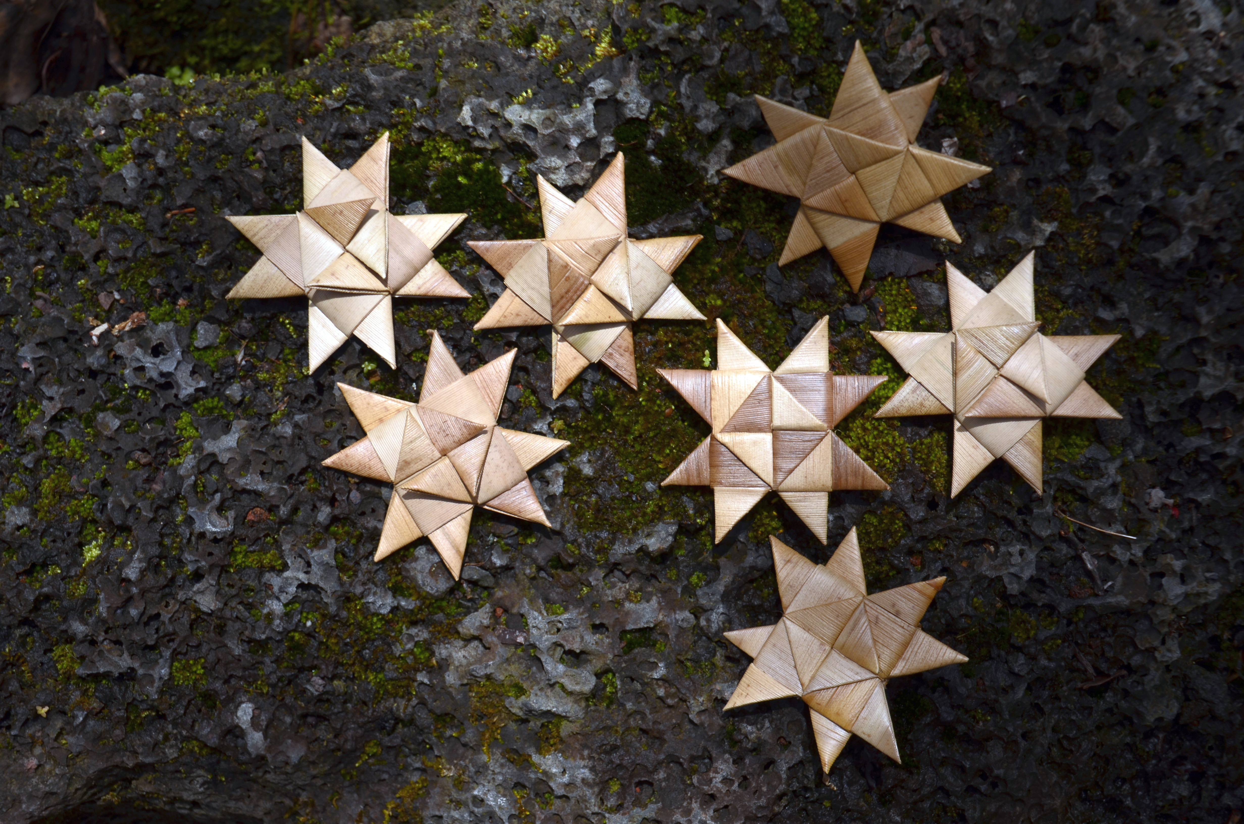 German stars made from lauhala (see Lauhala weaving) in Puna, Hawaiʻi; lauhala weave as taught by Lynda Saffery (Puna, Hawaiʻi)